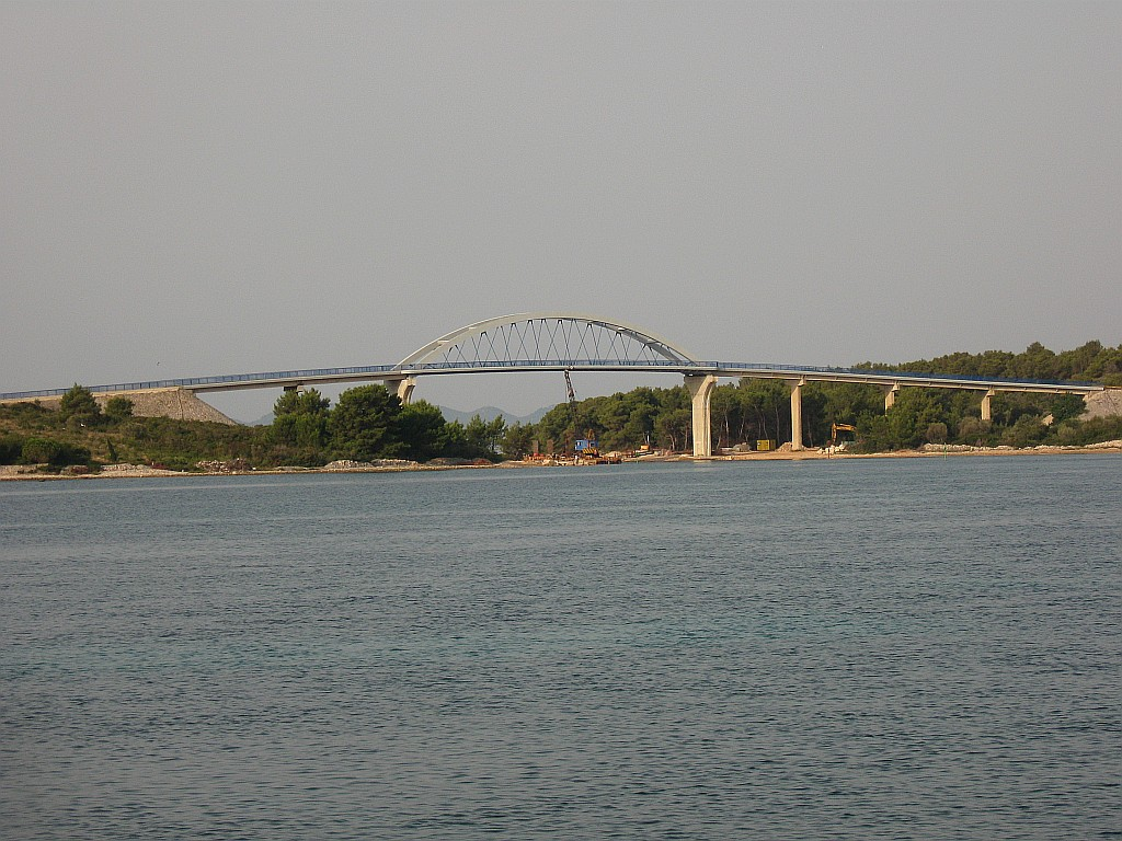 New bridge over Ždrelac strait